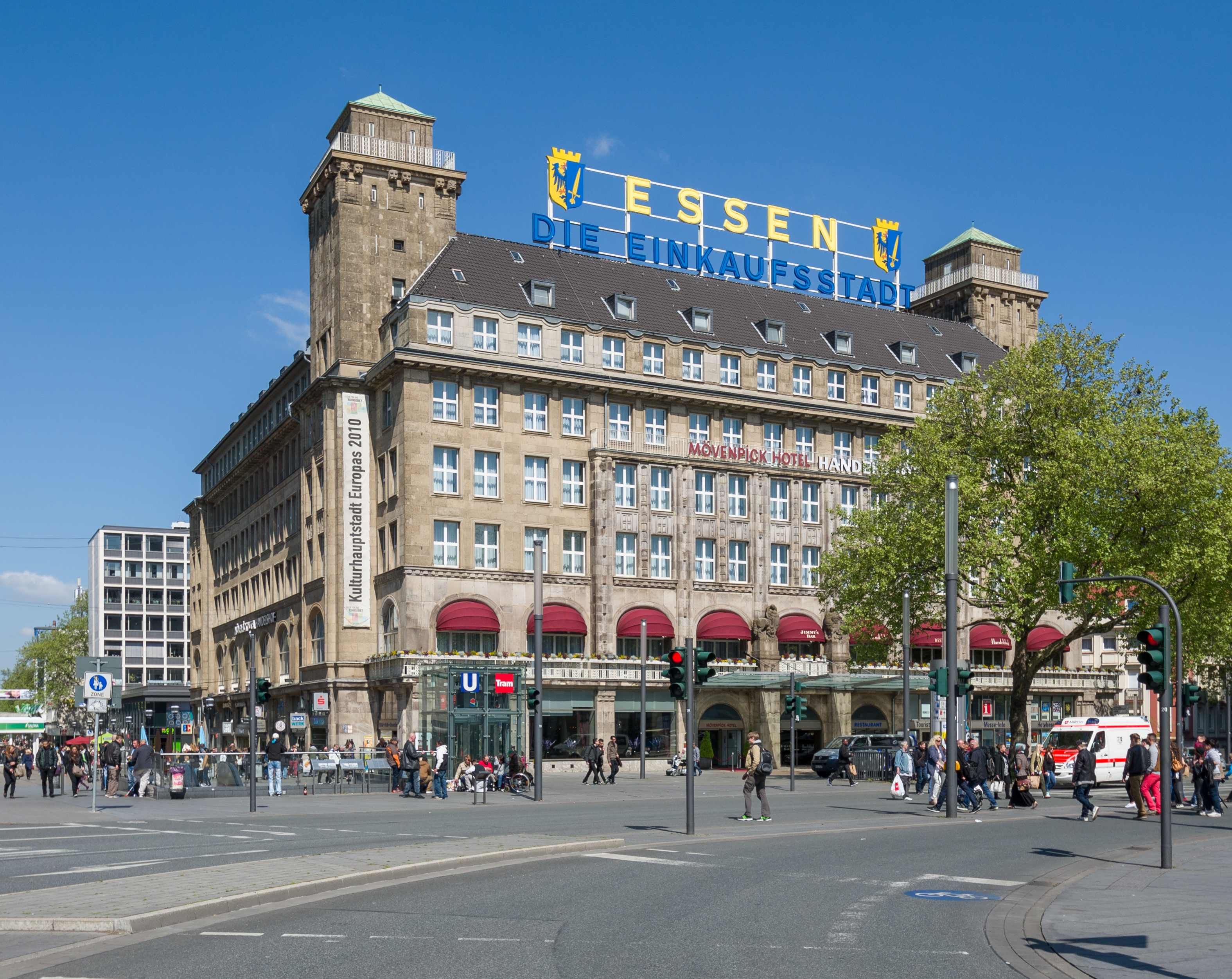 Hotel Handelshof with slogan "Einkaufsstadt Essen" (shopping city Essen)